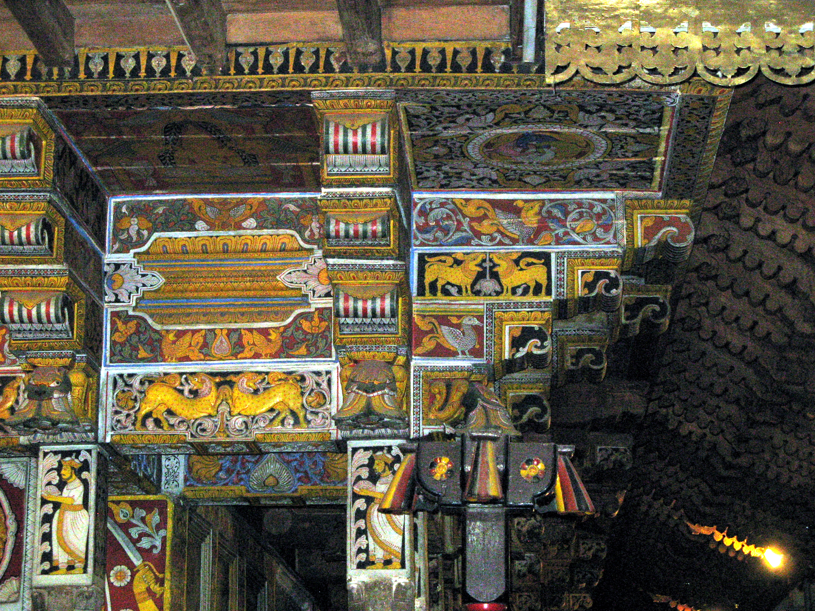 A part of the complicated form and exuberant painted decoration of the temple's bracketing is seen here in close-up. It includes fanciful animals, birds, and humans, and is located above the entrance porch to the Tooth Relic Shrine.